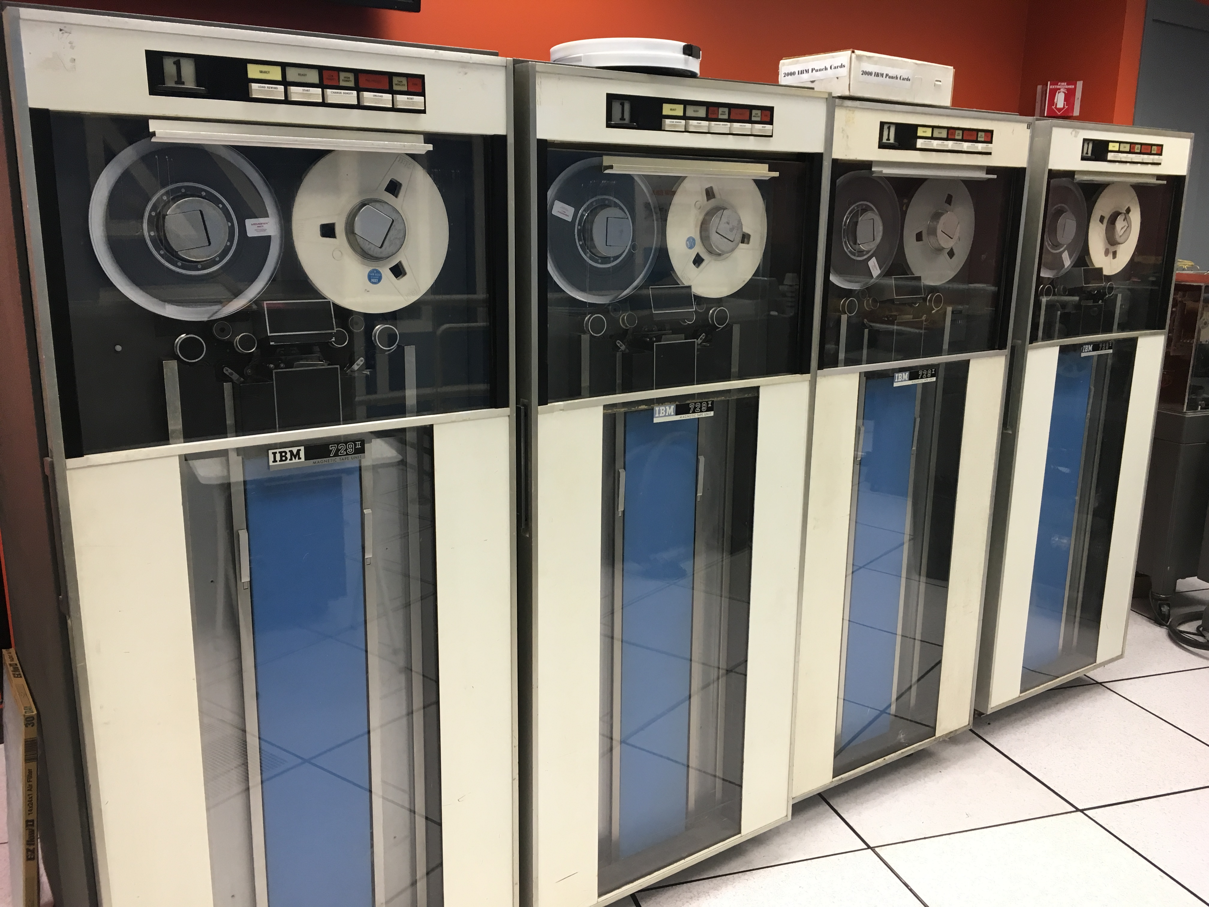 Bank of IBM 729 magnetic tape drives at the Computer History Museum IBM 1401 exhibit.